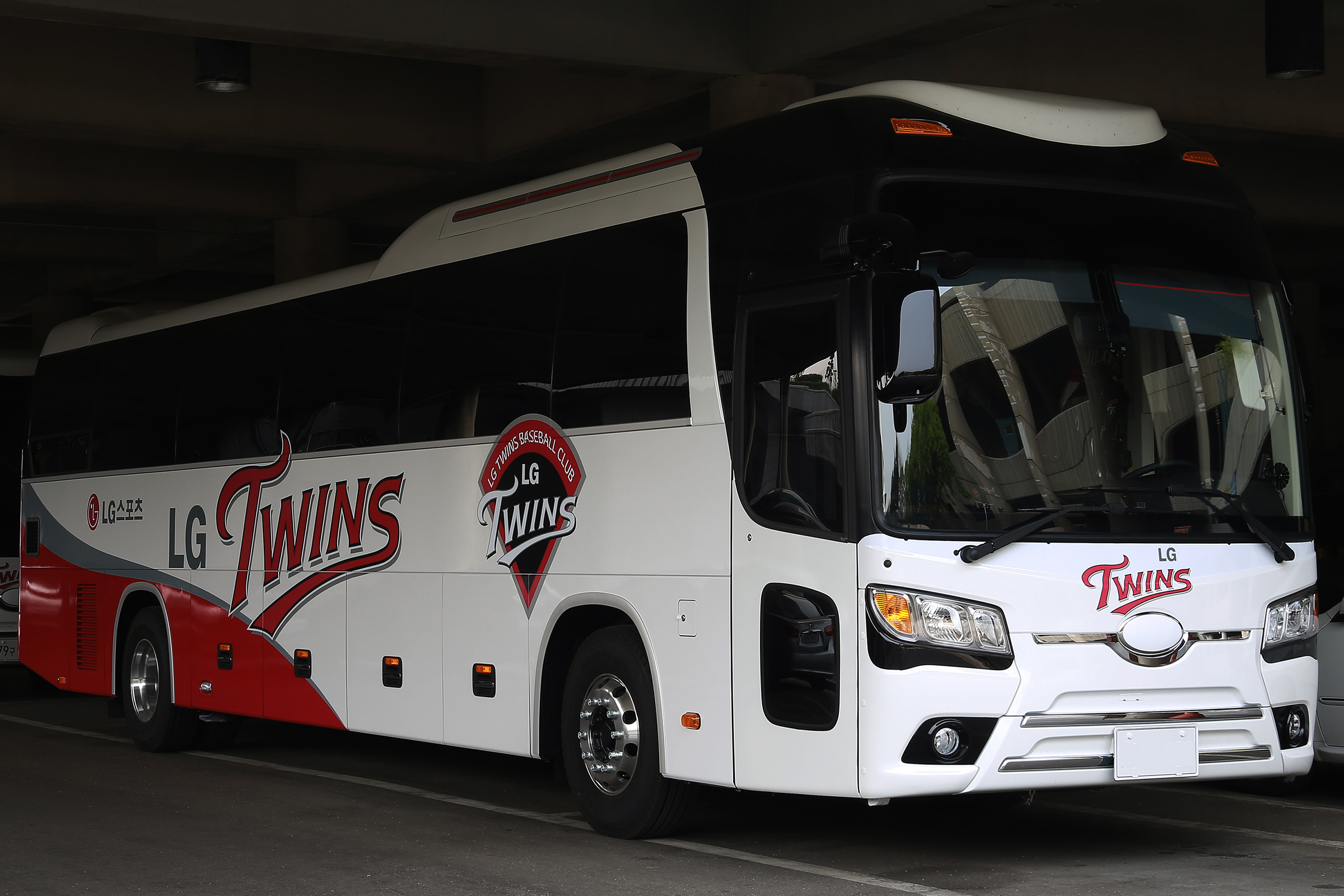 Kia Granbird of LG Twins at Jamsil Ballpark